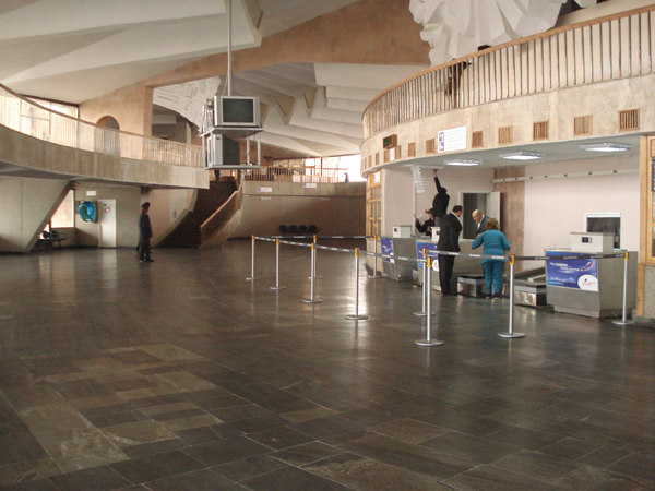 Image of the interior of Shirak Airport in Gyumri Armenia